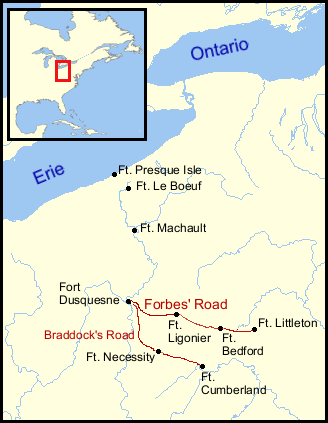 French and British forts built in the Ohio Country from 1753 to 1758. Includes French Forts (New France): Fort Presque Isle, Fort Le Boeuf, Fort Machault and Fort Duquesne. Also, British Forts: Fort Littleton, Fort Bedford, Fort Ligonier, Fort Necessity and Fort Cumberland. Shows positions of Lancaster, Pennsylvania, and Philadelphia, Pennsylvania. Also shows the approximate routes of Braddock's Road and Forbes Road.